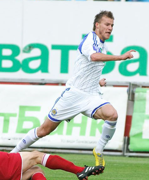 Andriy Yarmolenko, Ukrainian footballer, during the game for Dynamo Kyiv